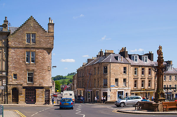 Jedburgh Town Centre with the Mercat Cross and Canongate from Castle Hill © David Kilpatrick Davidkilpatrick 12:22, 23 February 2007 (UTC)